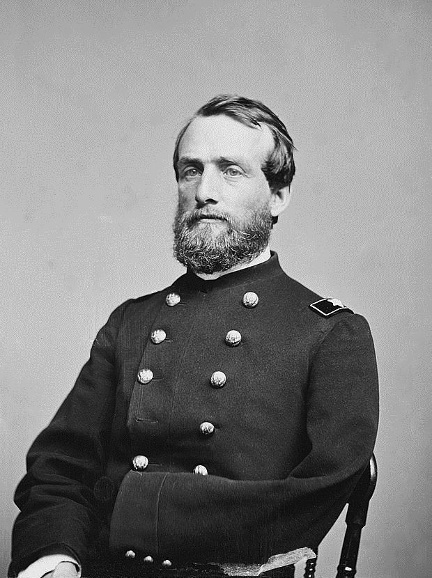 Lucius Fairchild: US Army brigadier general, Governor of Wisconsin, and U.S. Minister to Spain